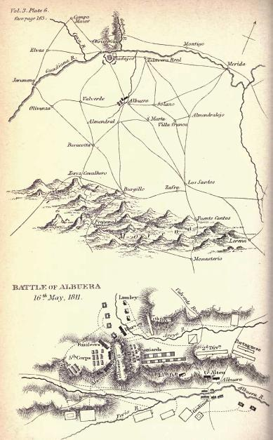 Map of the Battle of Albuera, from Volume III of William Napier's History of the War in the Peninsula, published 1836. See Battle of Albuera.